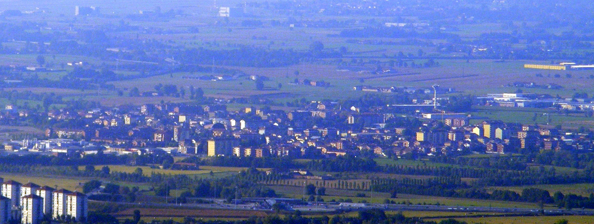 Mappano (TO, Italy) from Superga